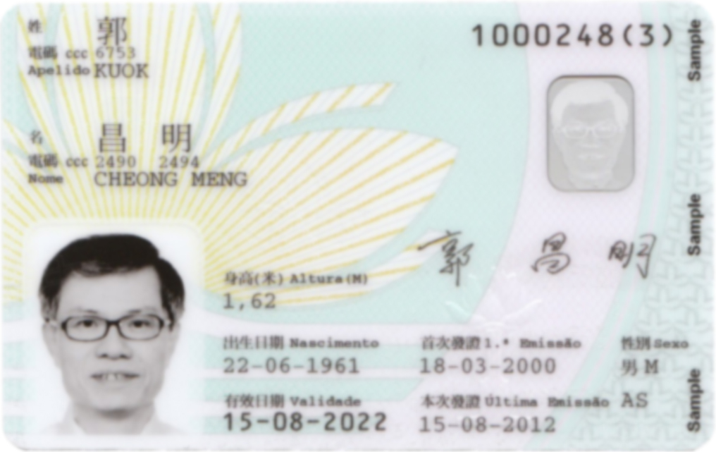 Macao SAR Electronic Identity Card 2013(Front)